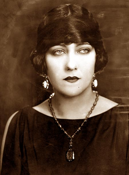 Gloria Swanson in The Impossible Mrs. Bellew